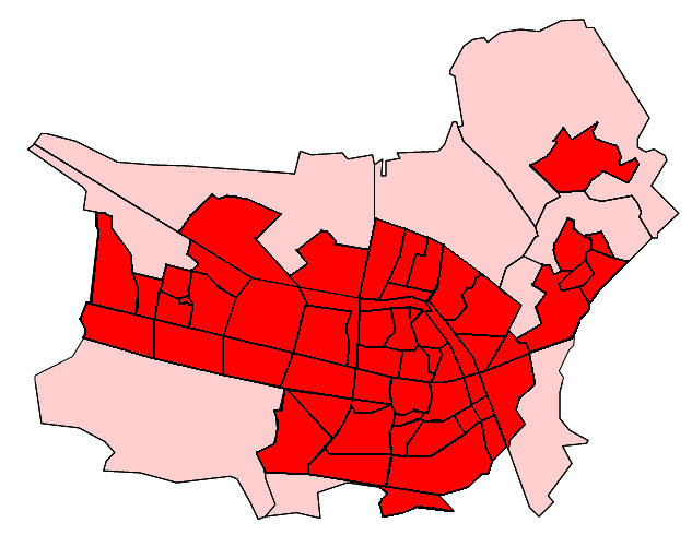 built-up area of Tilburg, the Netherlands